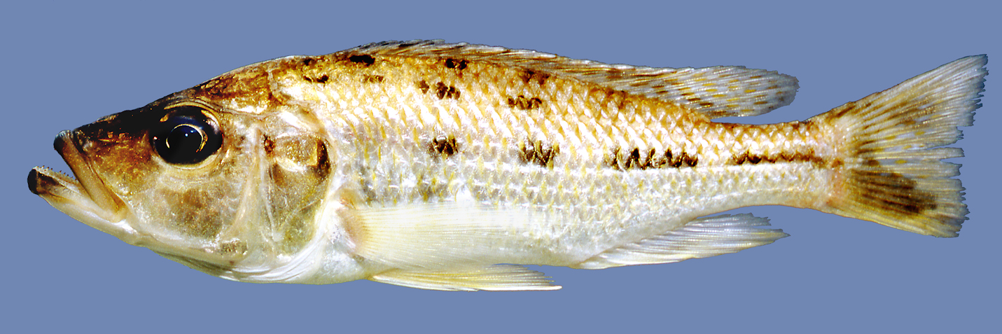 A live adult individual of Hemitaeniochromis urotaenia (Regan), a cichlid species endemic to Lake Malawi, Africa. Freshly collected from between Otter Island and Chembe, Nankumba Peninsula, Lake Malawi, Malawi. Collected by M.K. Oliver, K.R. McKaye, & T.D. Kocher. Photographed in a photographic tank.